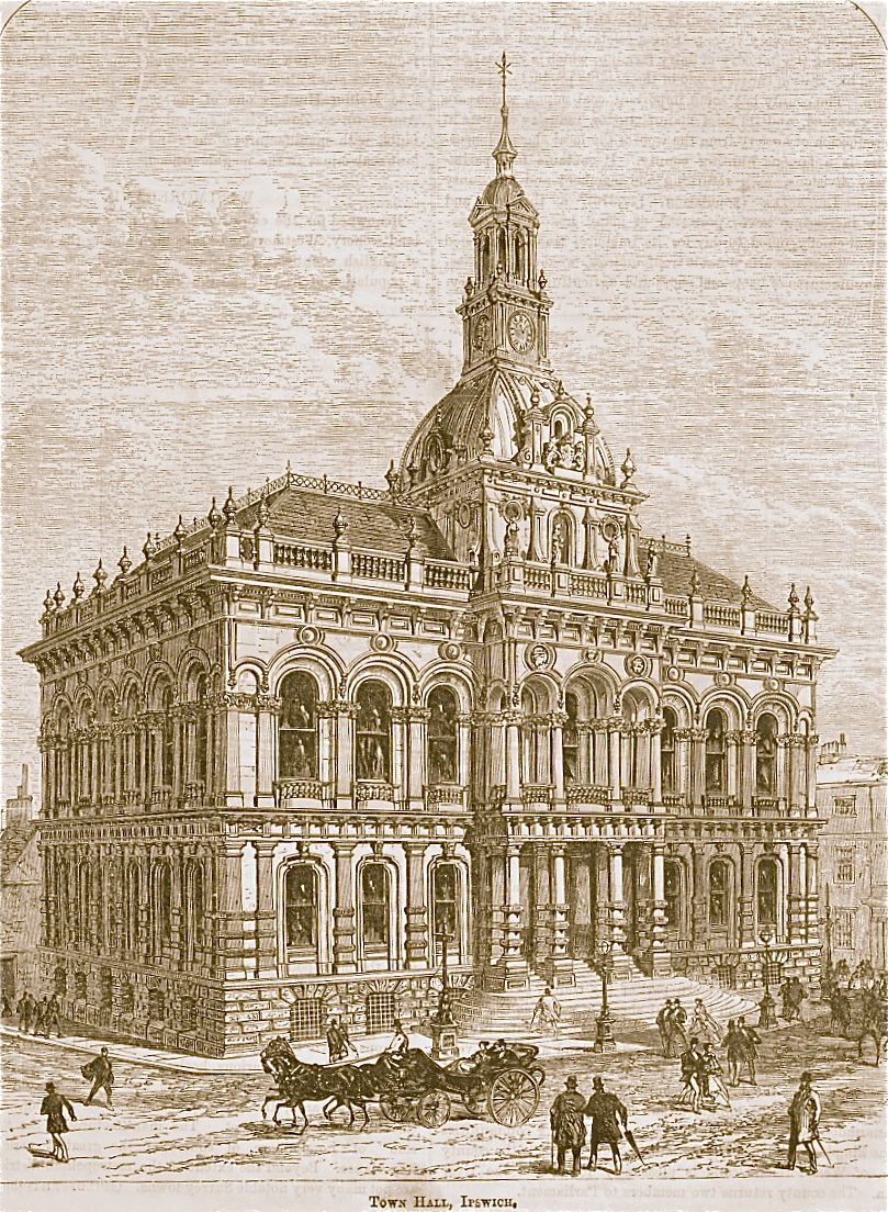 IpswichTown Hall